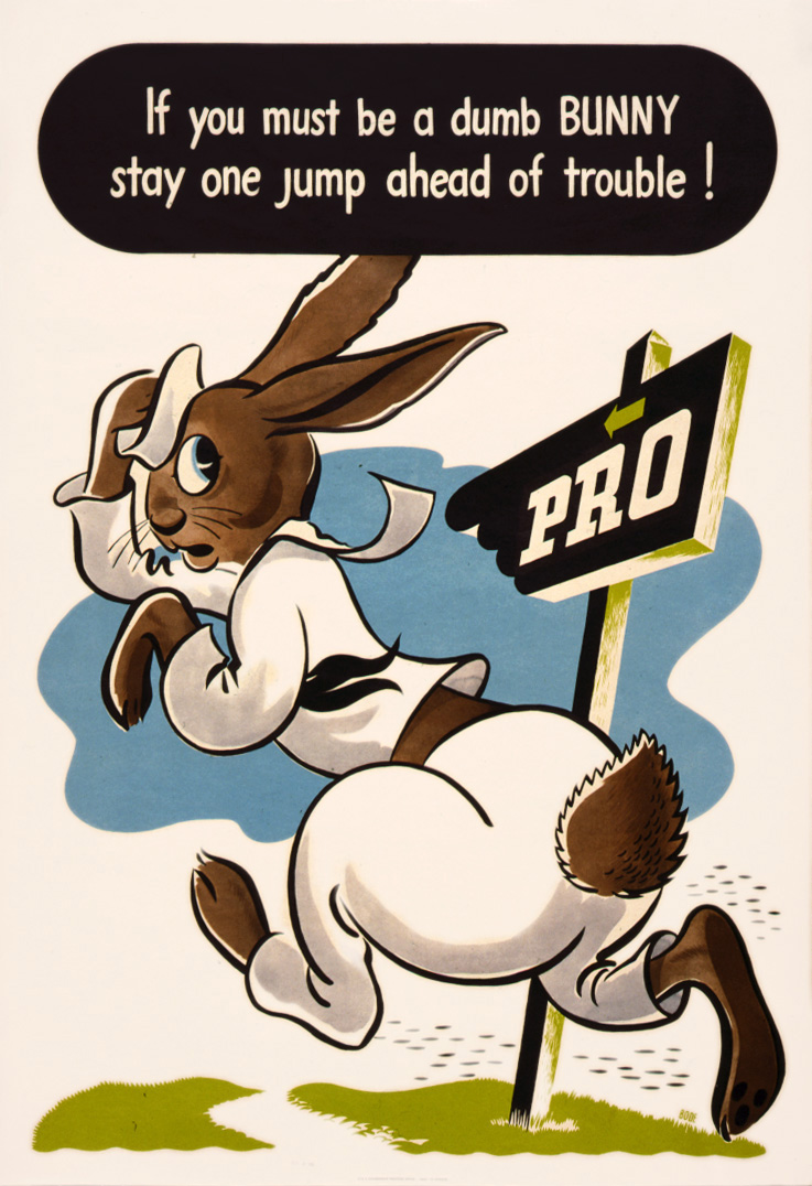 If you must be a dumb bunny stay one jump ahead of trouble! Rabbit, in sailor's suit, running in direction of sign pointing to prophylactic station ("pro").